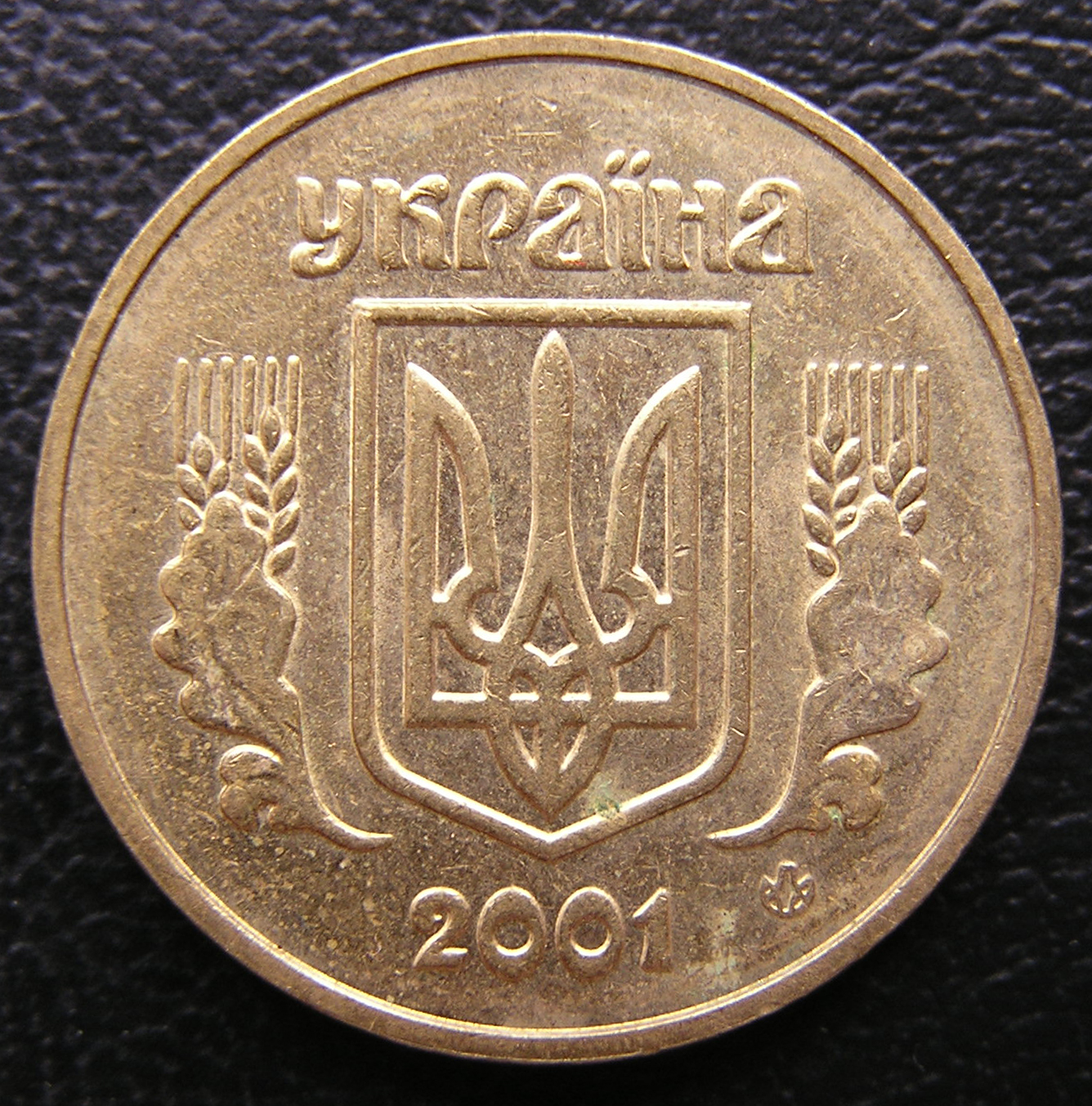 1 hryvnia Ukraine